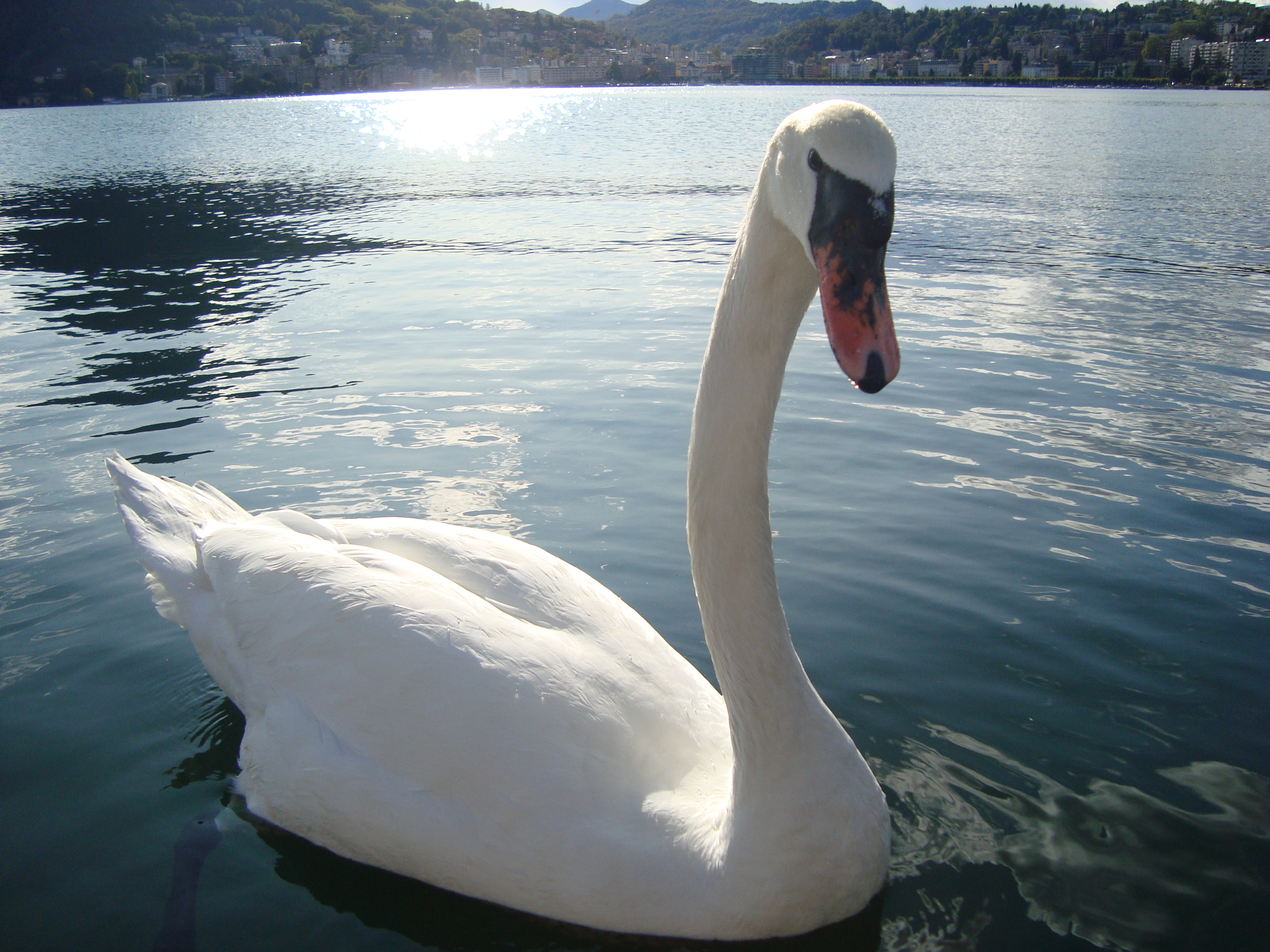 A swan on the lake of Lugano.